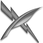 US Navy Cryptologic Technician (CT). Crossed quill and spark, both pointing down; pen on top with nib to the front, correct spark orientation.